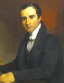 Portrait of John Sergeant.